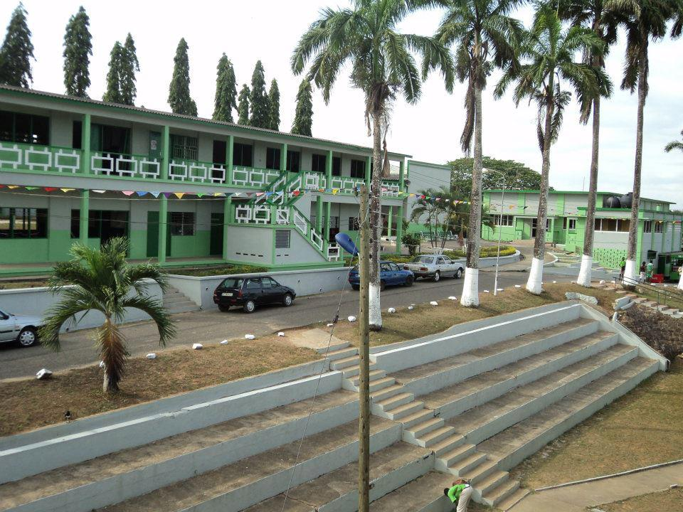 Form 3 block containing the physics and biological labs